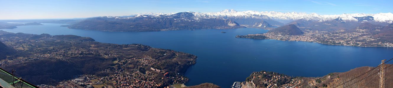 Panorama of Lake Maggiore from Poggio Sant'Elsa, Laveno-Mombello, Varese